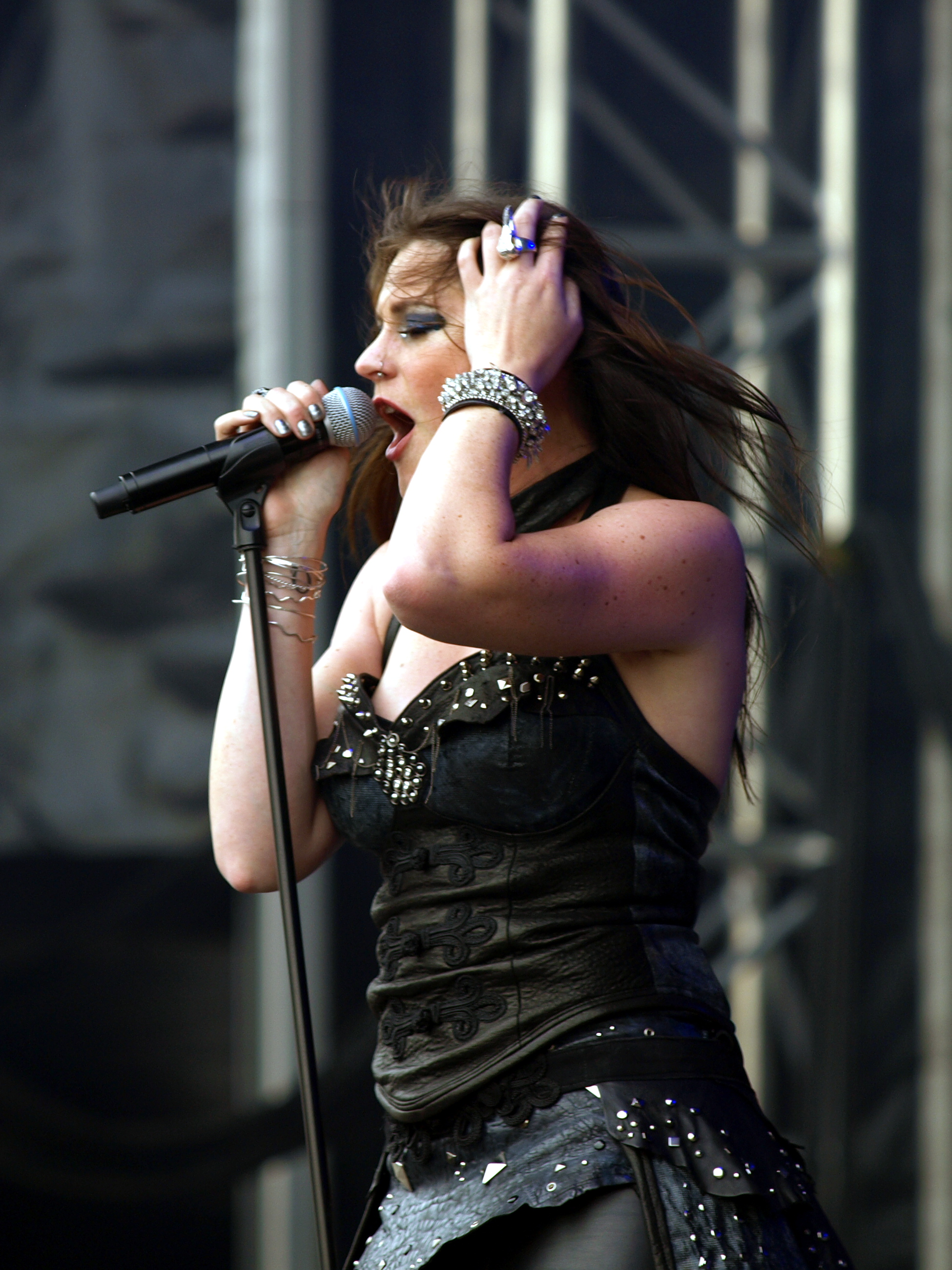 Finnish band Nightwish at Tuska Open Air 2013